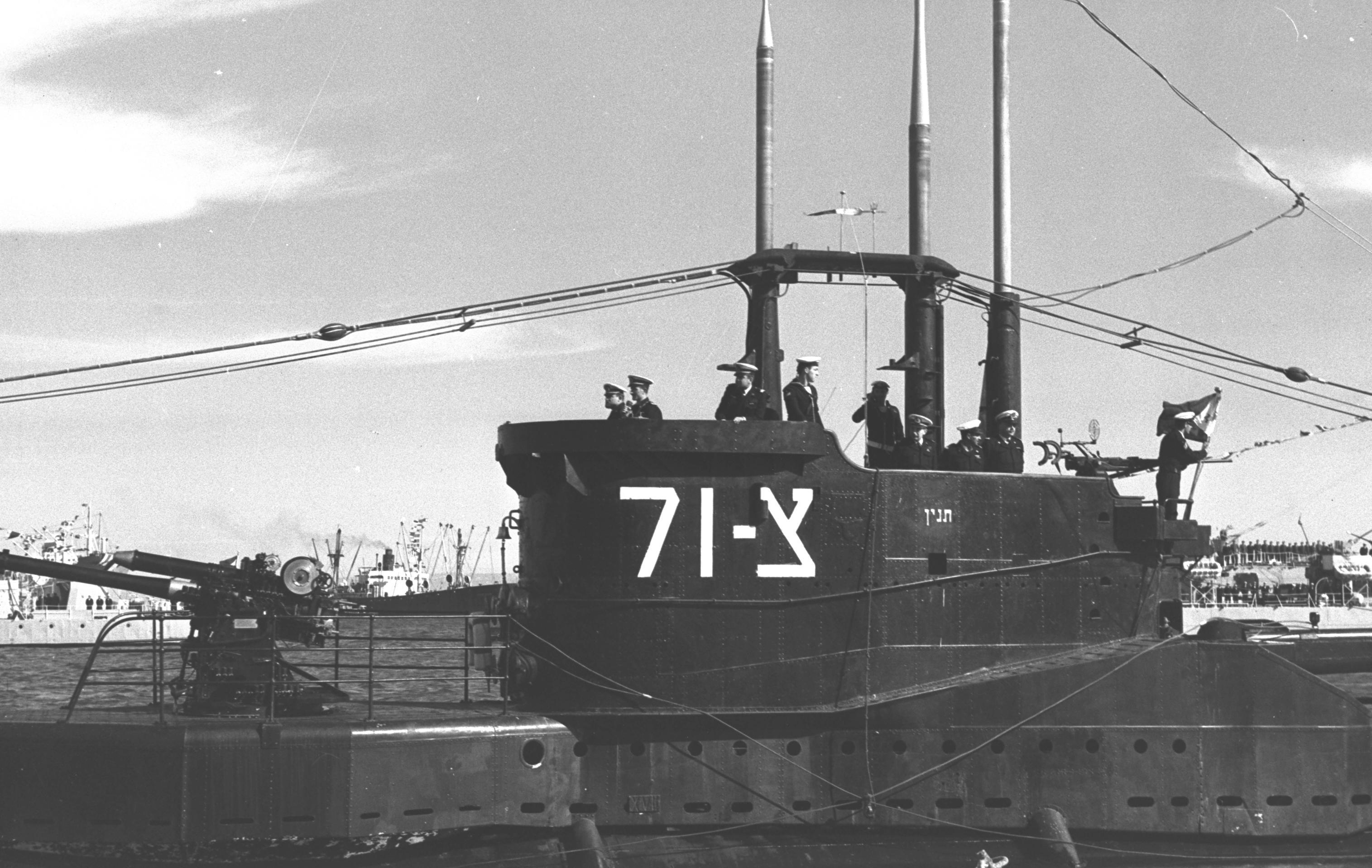 Bridge of the "Tanin", Israel Navy's first submarin, on the day of arrival to Haifa from Portsmouth England.